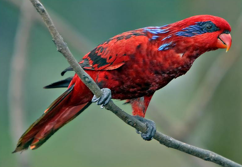 Blue-streaked Lory